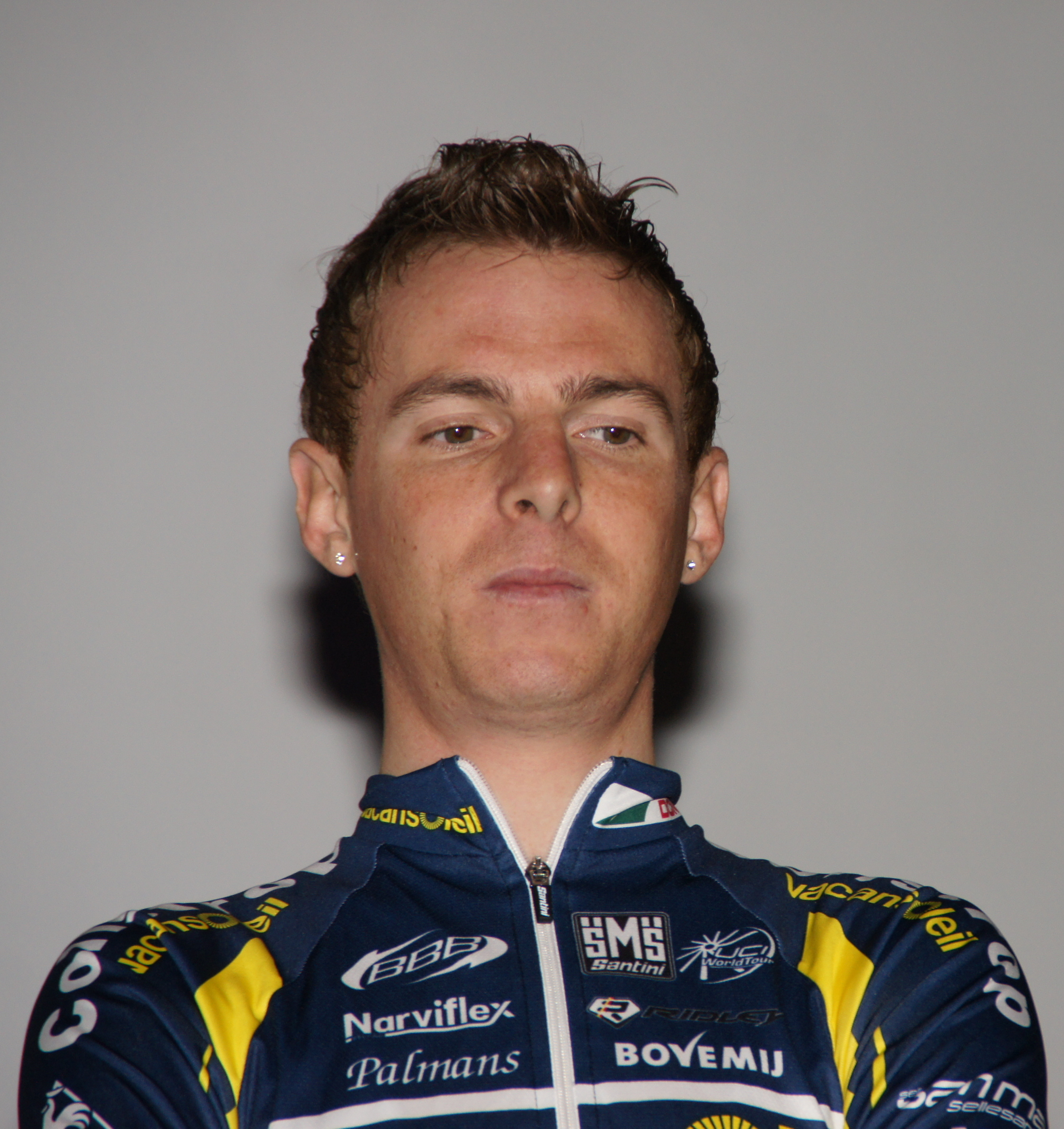 Riccardo Riccò during the presentation of Vacansoleil-DCM Cycling team in Ahoy' Rotterdam.